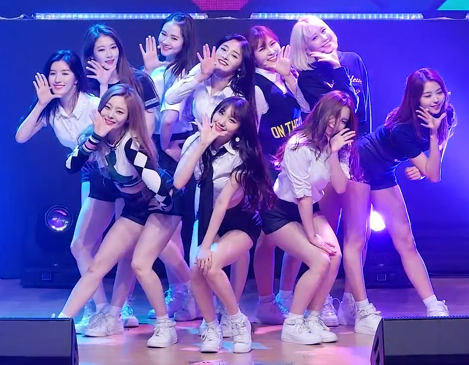 Pristin performing "Wee Woo" at the Sunfull Concert.